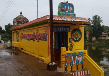 Kumbakonam Venkatachalapathy Temple on the banks of Cauvery கும்பகோணம் காவேரிக்கரையில் வெங்கடாஜலபதி கோயில்